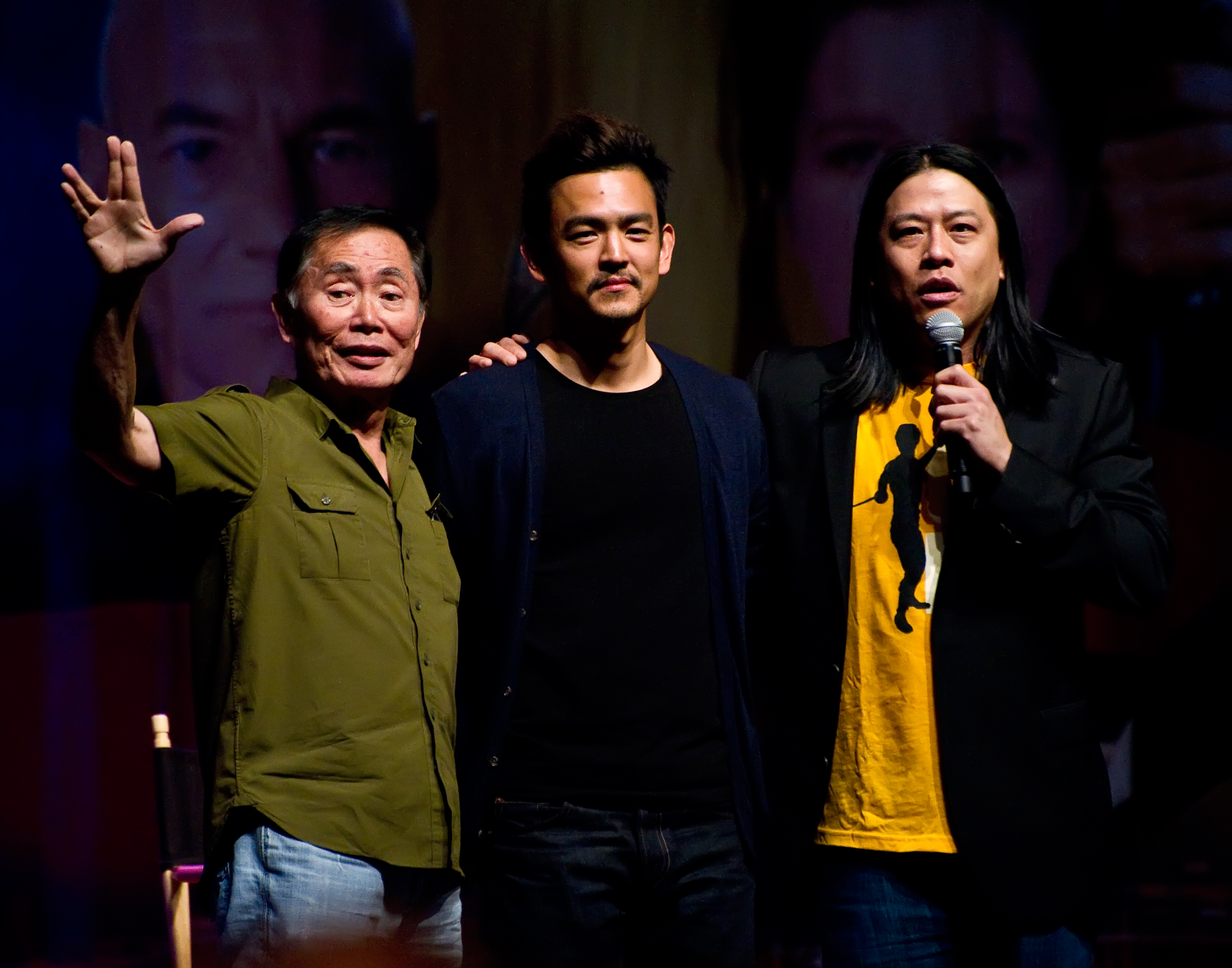 George Takei, John Cho and Garrett Wang at the Las Vegas Star Trek Convention 2011.